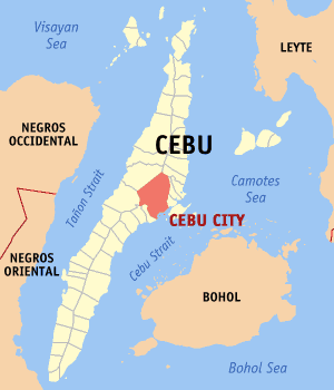 Map of Cebu showing the location of Cebu City